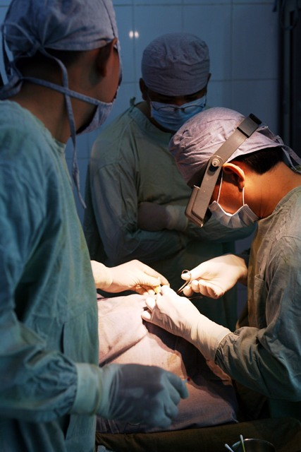 A doctor performing cataract surgery at the Battambang Ophthalmic Care Centre, Cambodia.